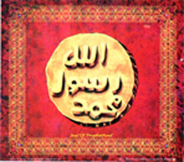 Low quality image of the historical "seal of Muhammad", with some added artistic decoration (and an illegible copyright notice). The seal itself is found on letters sent from Muhammad. The text reads "Muhammad rasul Allah (Muhammad is the messenger of God).